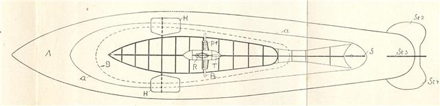 Plan elevation (from below) drawing of the Lebaudy Patrie 1906-1907, showing laterally mounted elevators above and forward of the gondola.